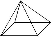 Pyramid